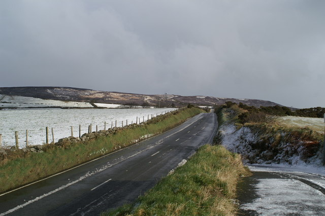 Looking up the Mountain Road on the TT course towards Creg-ny-Baa